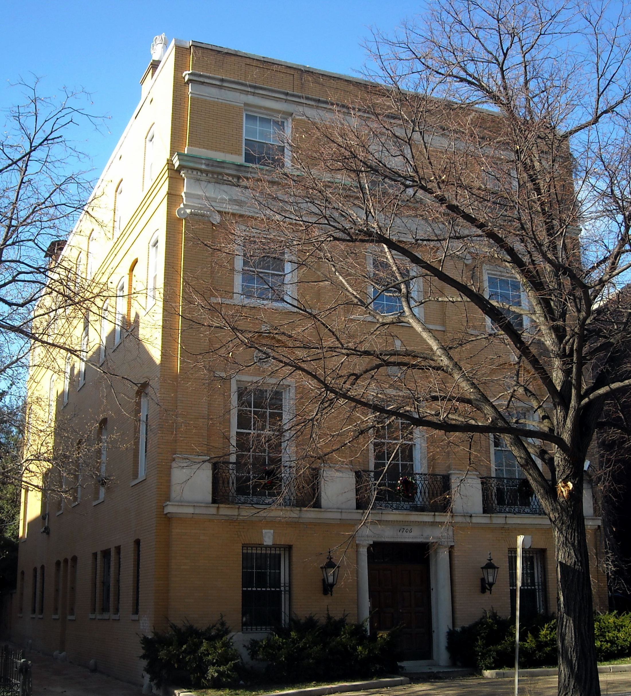 The Russian News & Information Agency offices (also known as RIA Novosti Bureau or Information Office for the Embassy of the Russian Federation; former offices of the propaganda Soviet Life magazine) located at 1706 18th Street NW in the Dupont Circle neighborhood of Washington, D.C. Designed by Jules Henri de Sibour in 1912, the Beaux-Arts building served as the residence of Margaret Cameron (original owner), John W. Weeks, Albert & Mary Lasker, and David A. Reed before its purchase by the Soviet government. The building is a contributing property to the Dupont Circle Historic District.